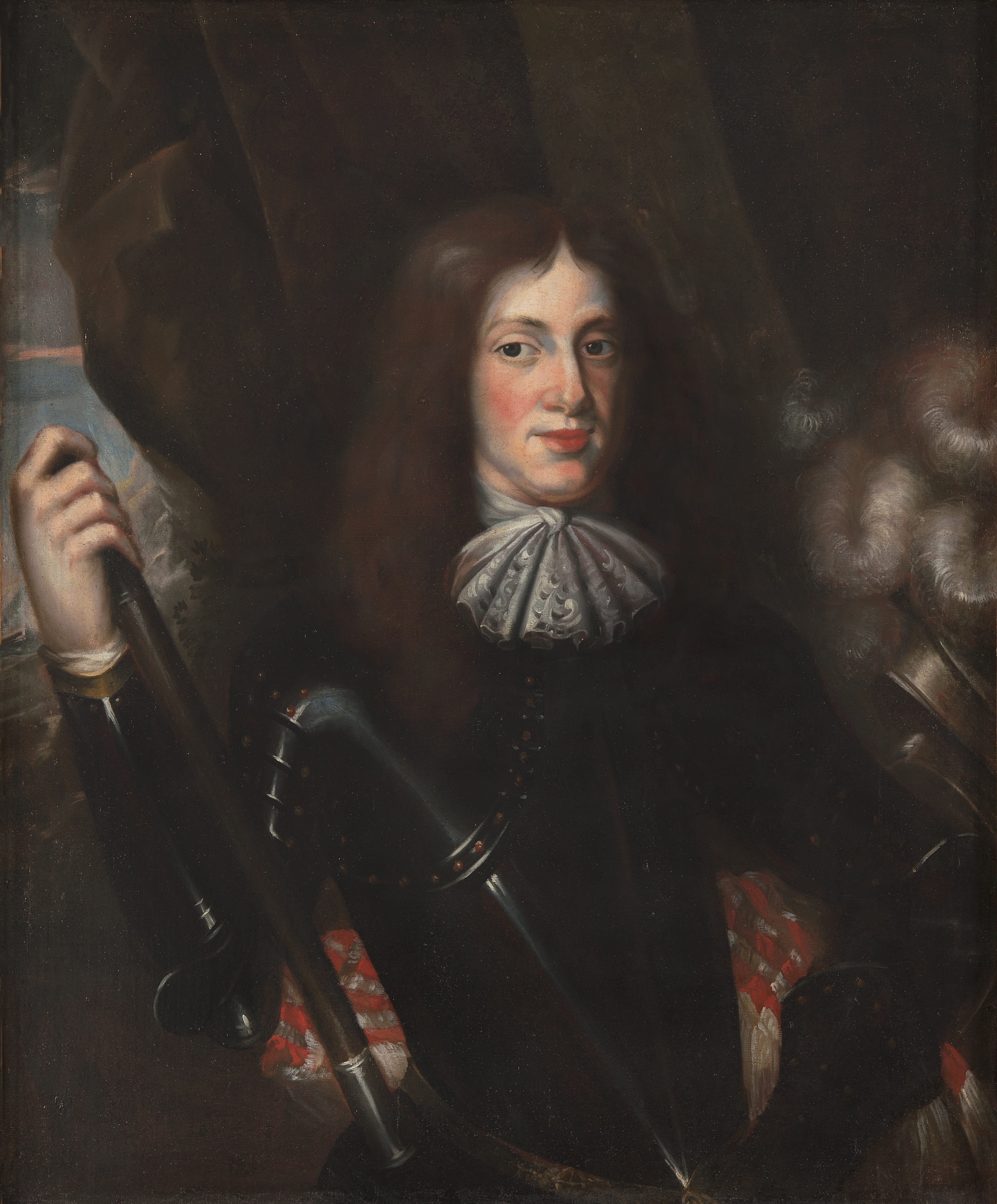 Portrait of Frederick Casimir Kettler (1650-1698), duke of Courland and Semigallia